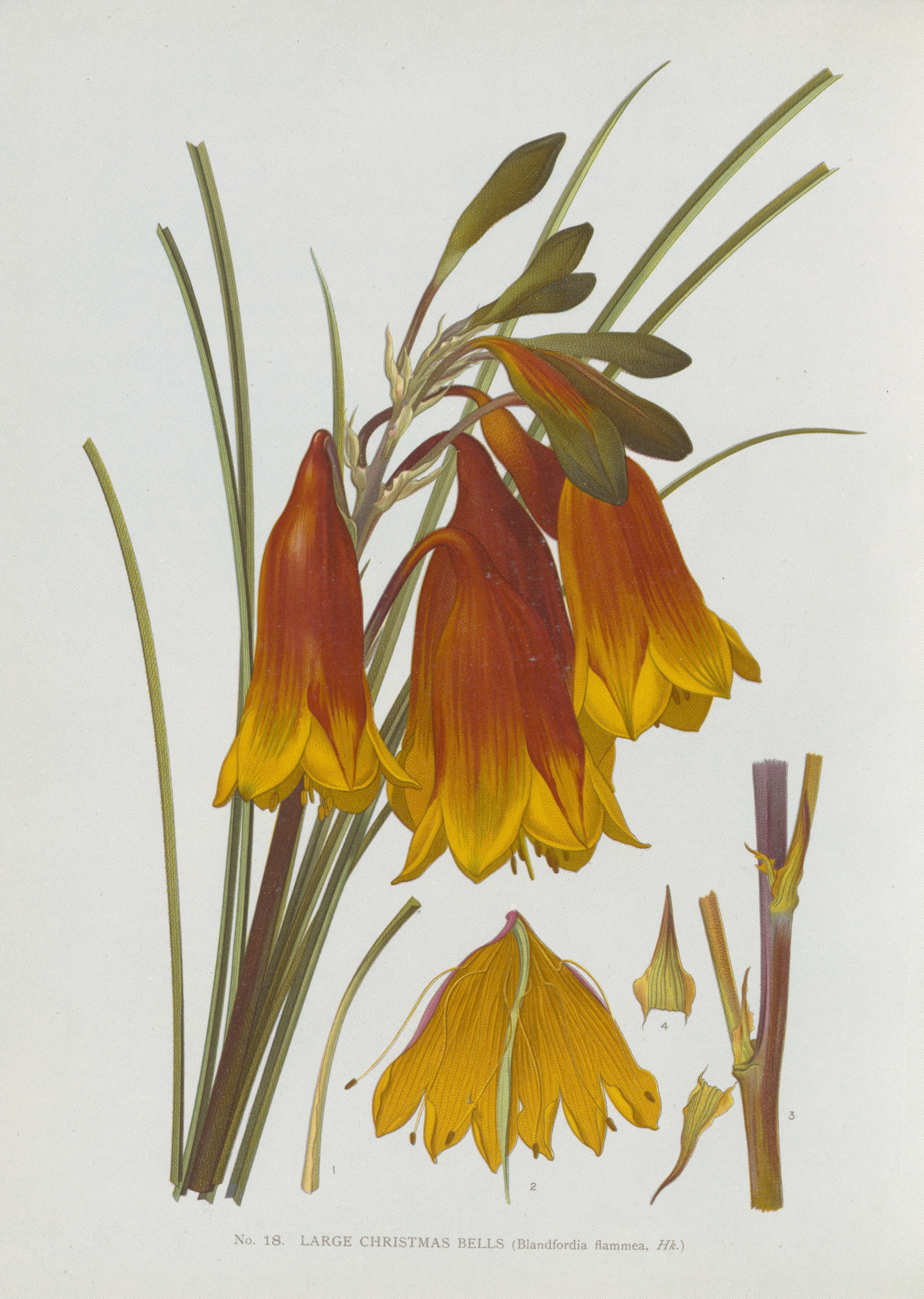 Blandfordia grandiflora (Large Christmas Bells) From: The Flowering Plants and Ferns of New South Wales - Part 5 (1896) by J H Maiden. NSW Government Printing Office.